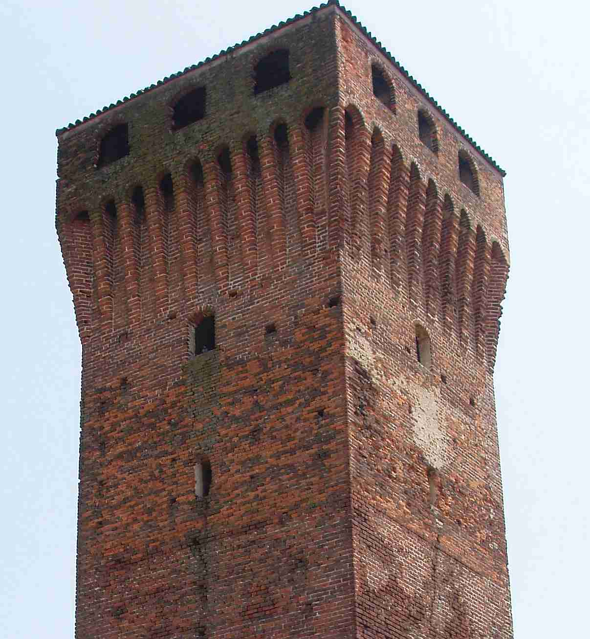 Middle ages tower of Balocco (VC, Italy)